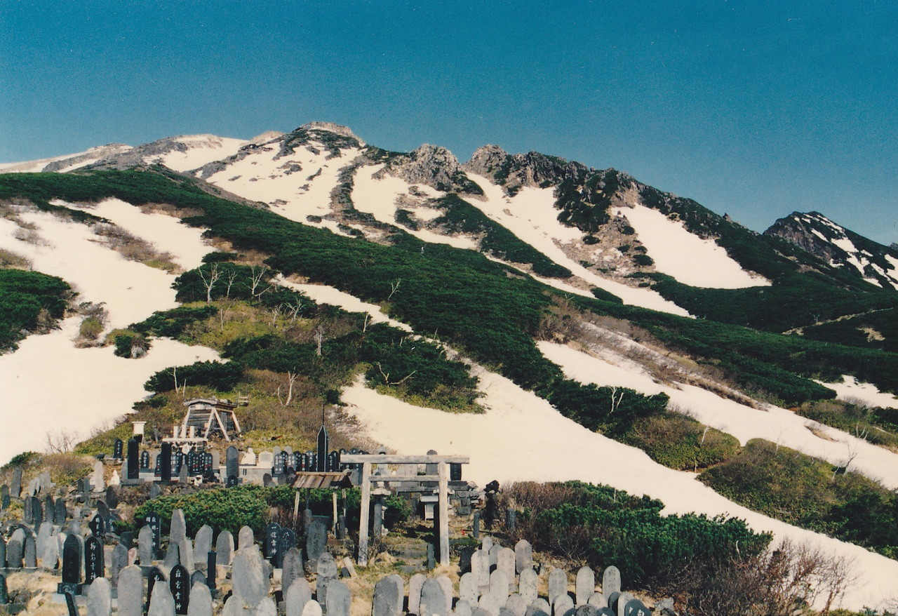 Mount Ontake from Nyonindo